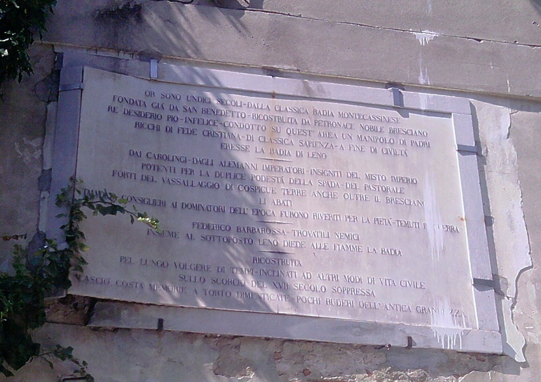 An iscrition about Badia Leonense